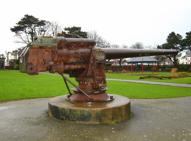 Right side view of gun from German submarine U-19. In Ward Park, Bangor, Northern Ireland.